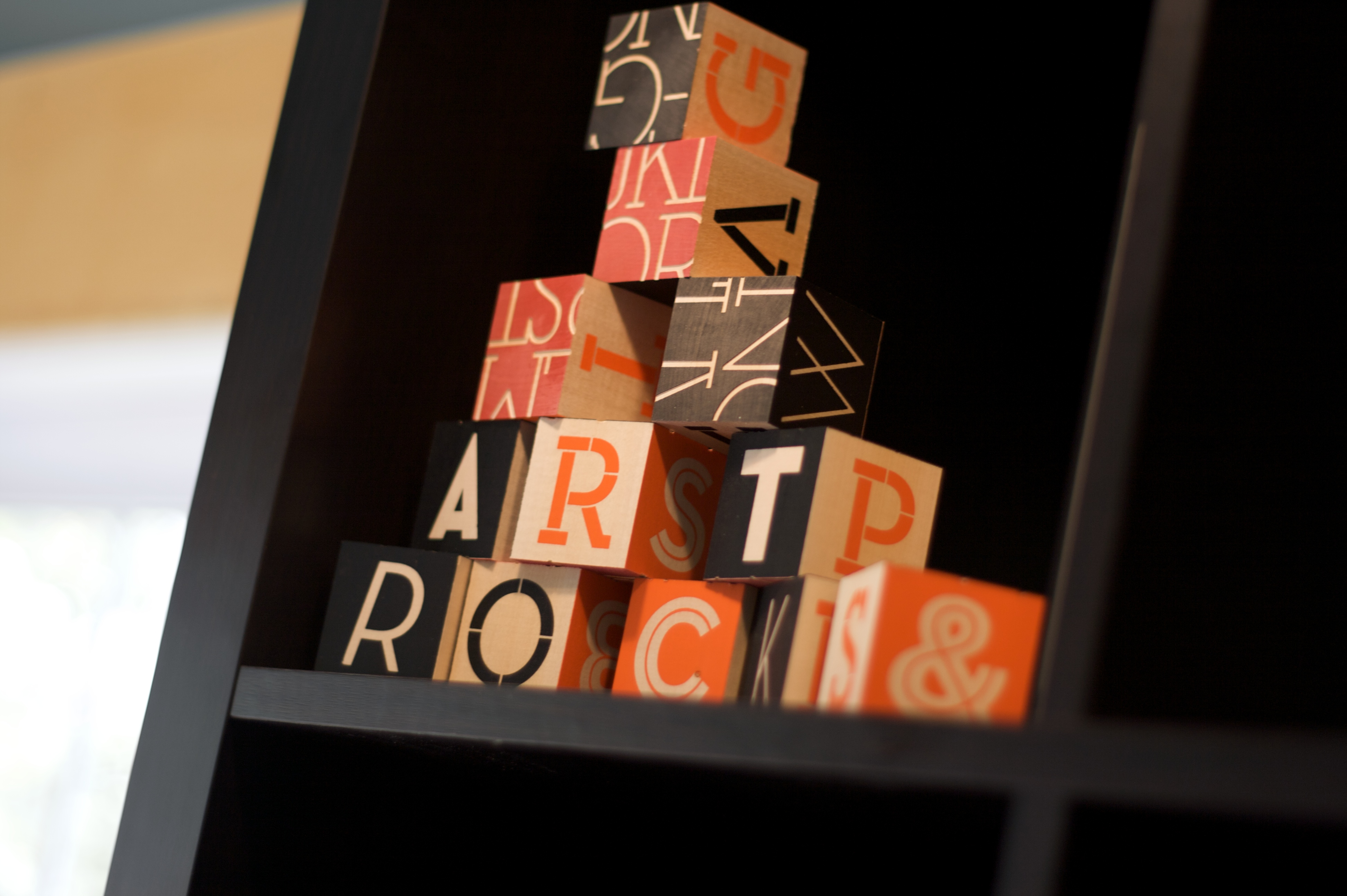 Got these from House Industries. Great typeface, and great little blocks. Wish I could say I bought these for my child, but that would be a lie =) .... (especcially since I don't *have* a child)